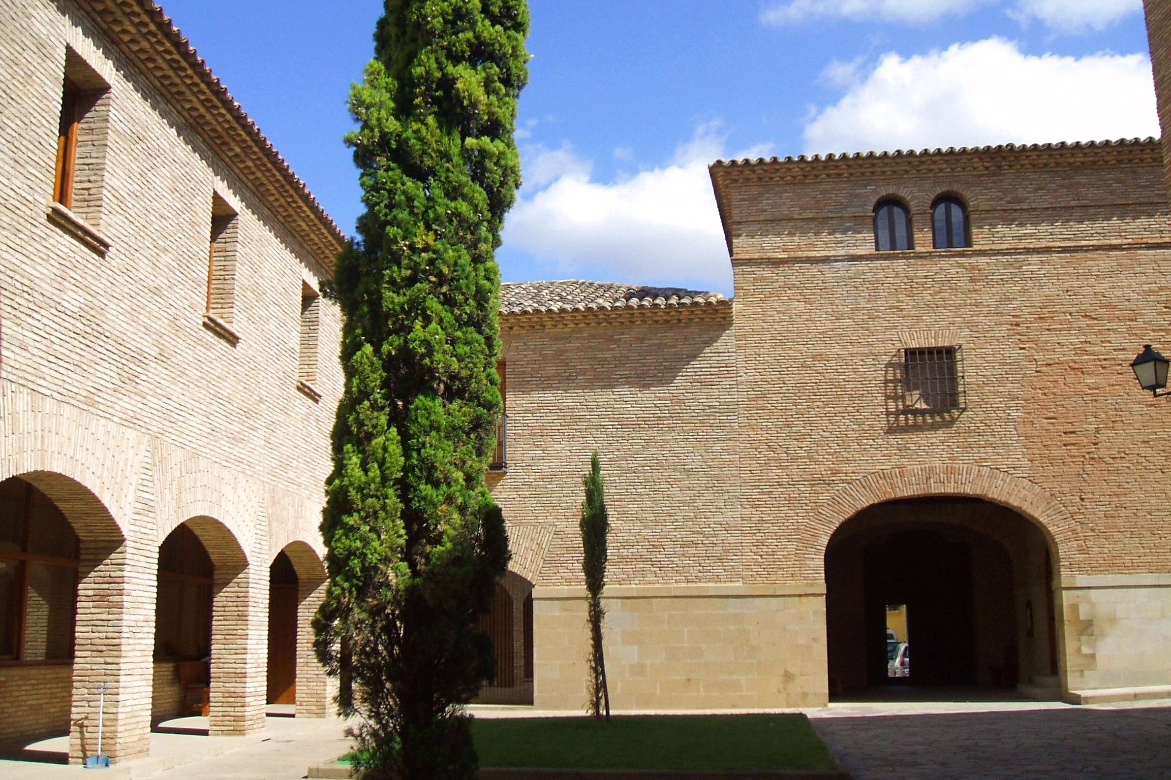 Monasterio femenino trapense (Cistercienses OCSO) de Santa María de la Caridad, en Tulebras (Navarra, España)